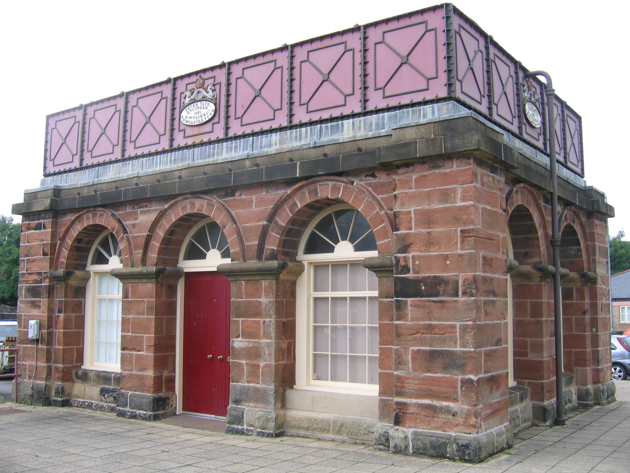 Water Tank of 1861 for steam engines at Haltwhistle Rly Station